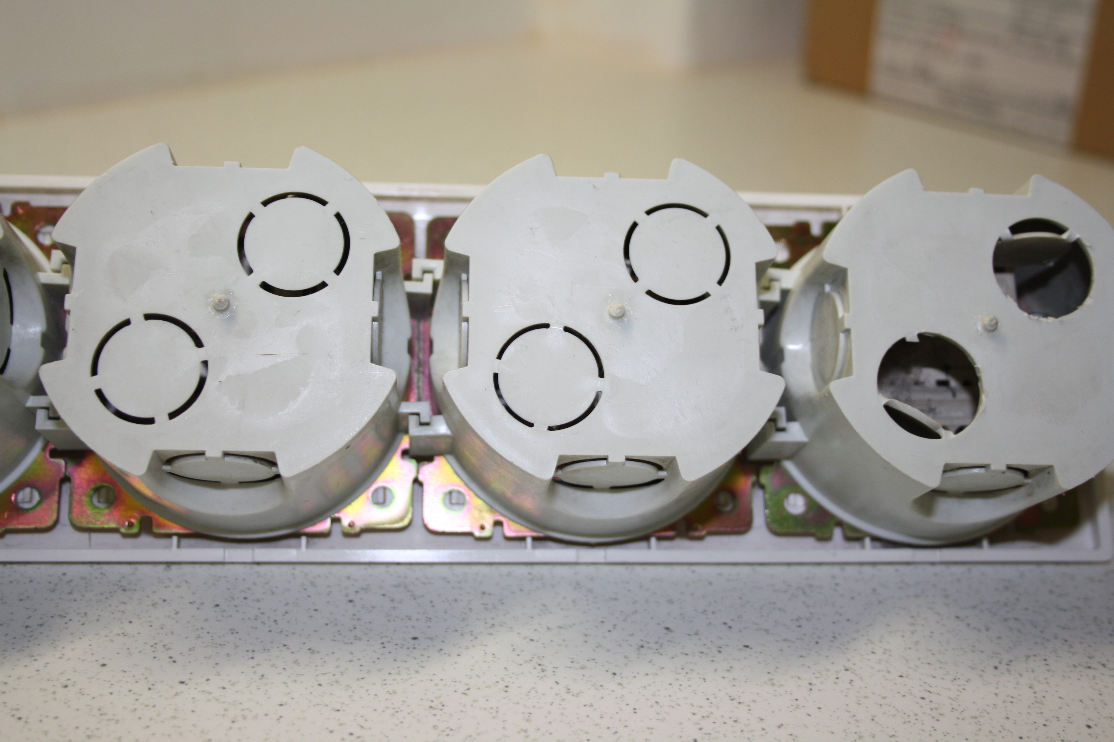 Electrical instalation box